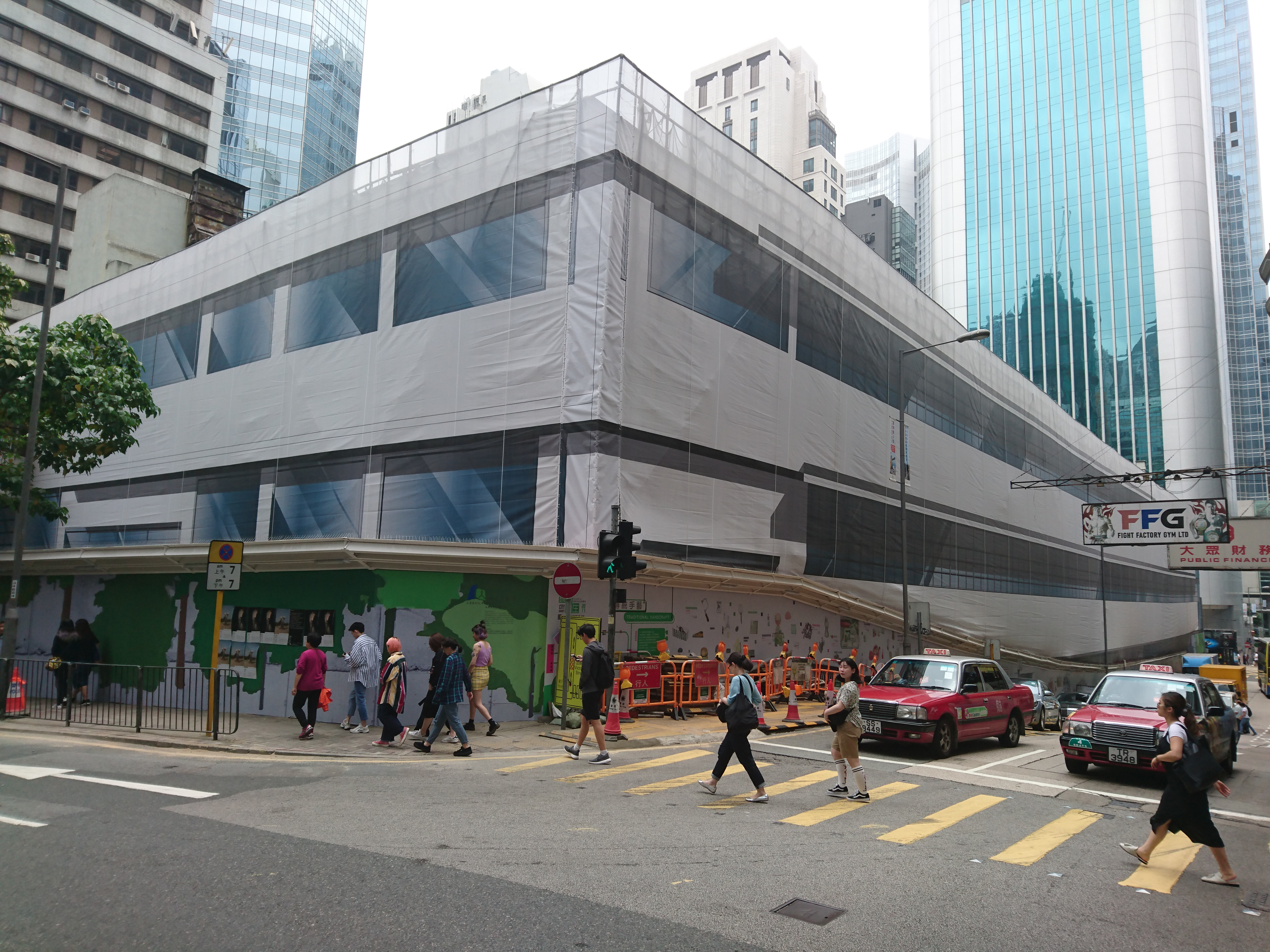 Queen Victoria Street near Queen's Road Central